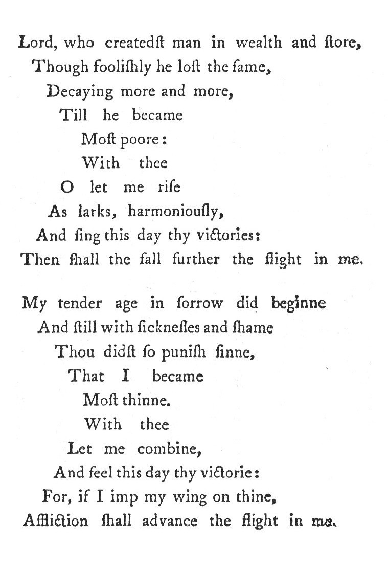 Upright version of File:GeorgeHerbertEasterWingsPatternPoem1633.jpg, an image of "Easter Wings", a "pattern poem" published in 1633 by George Herbert. As a pattern poem, the work is not only meant to be read, but its shape is meant to be appreciated: In this case, the poem was printed on two pages of a book, sideways, so that the lines suggest two birds flying upward, with wings spread. In this version, the image has been turned 90 degrees to the left, on its side, so that the poem may be easily read on a computer. In the original, the right side is on the bottom.